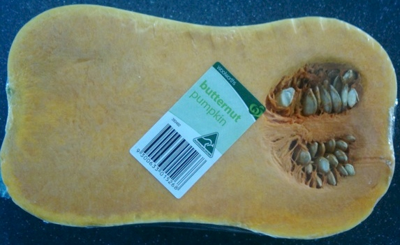 Cucurbita moschata, known as butternut pumpkin in Australia